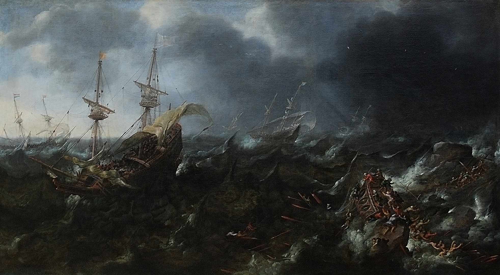 Ships in Perillabel QS:Len,"Ships in Peril"